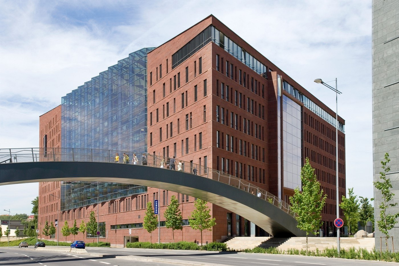 Hlavní sídlo společnosti Komerční pojišťovna na adrese Karolinská 1 v pražském Karlíně.